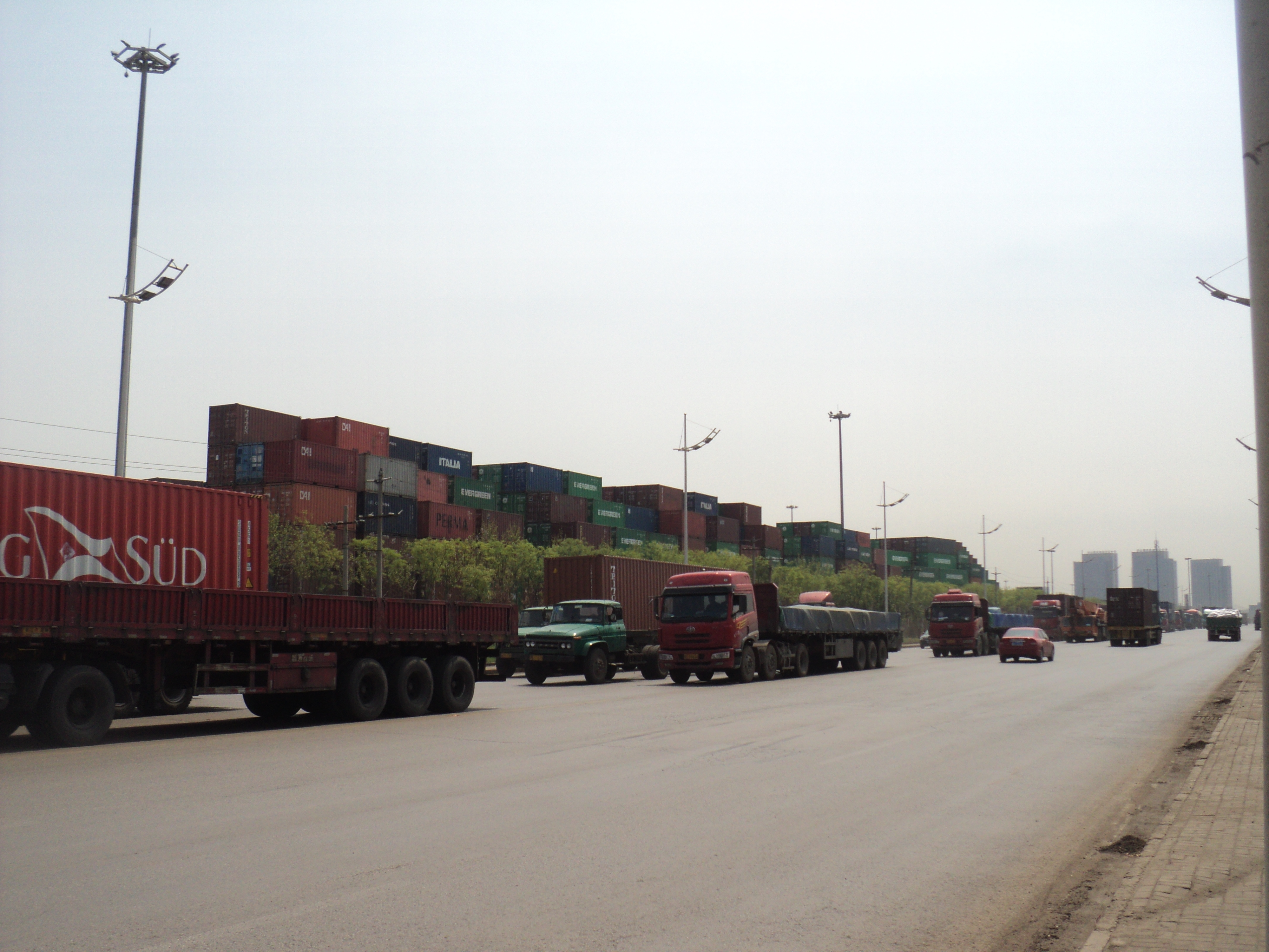 Heavy (literally) traffic at the main north-south road of the Container Logistics Center in the north side of the Tianjin Port.